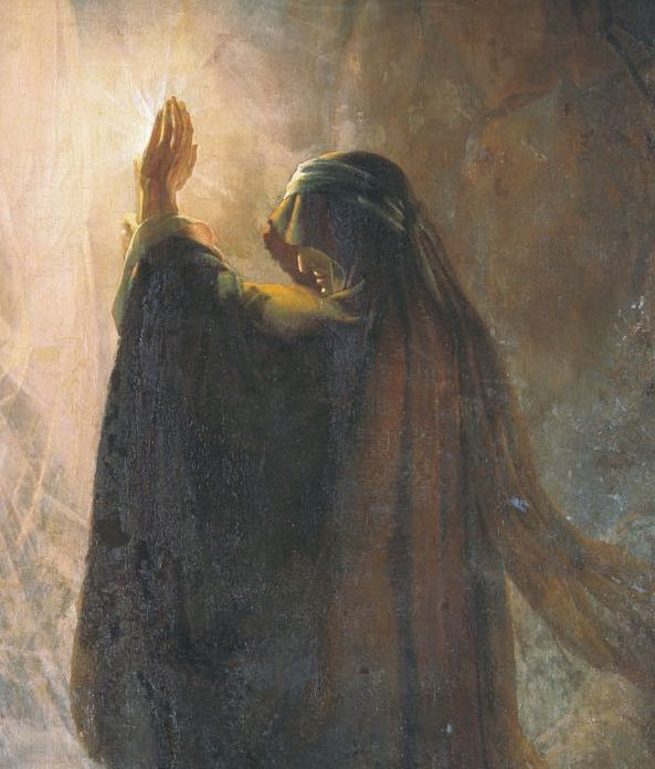 Witch of Endor (detail of "The Shade of Samuel Invoked by Saul" by D. Martynov